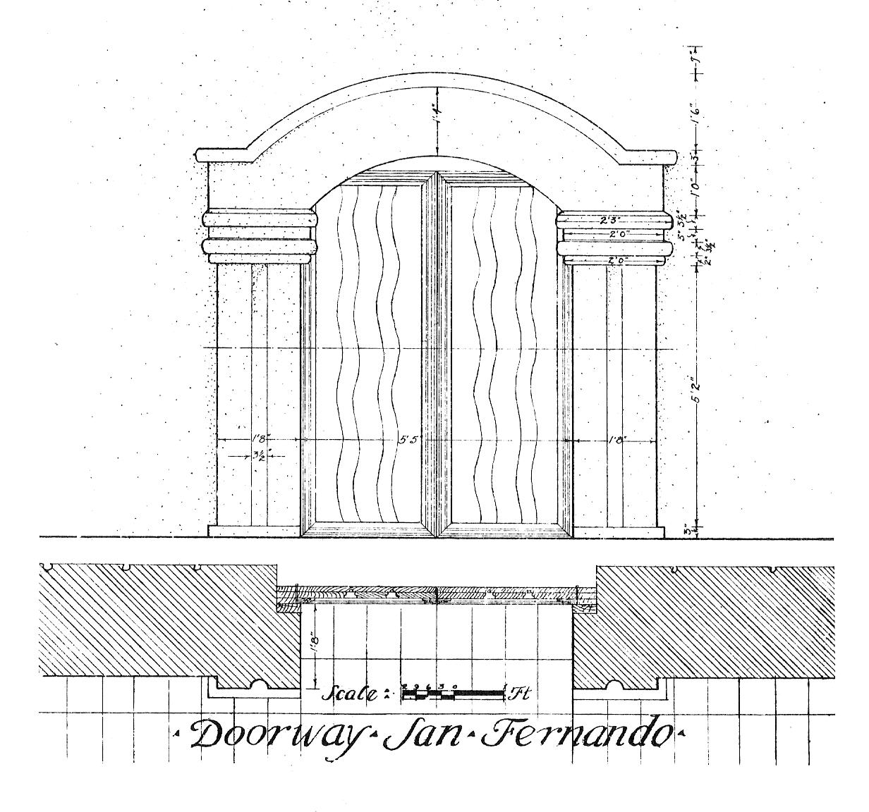 A door detail at Mission San Fernando Rey de España exhibiting the "River of Life" pattern — as drawn by architectural historian Rexford Newcomb.